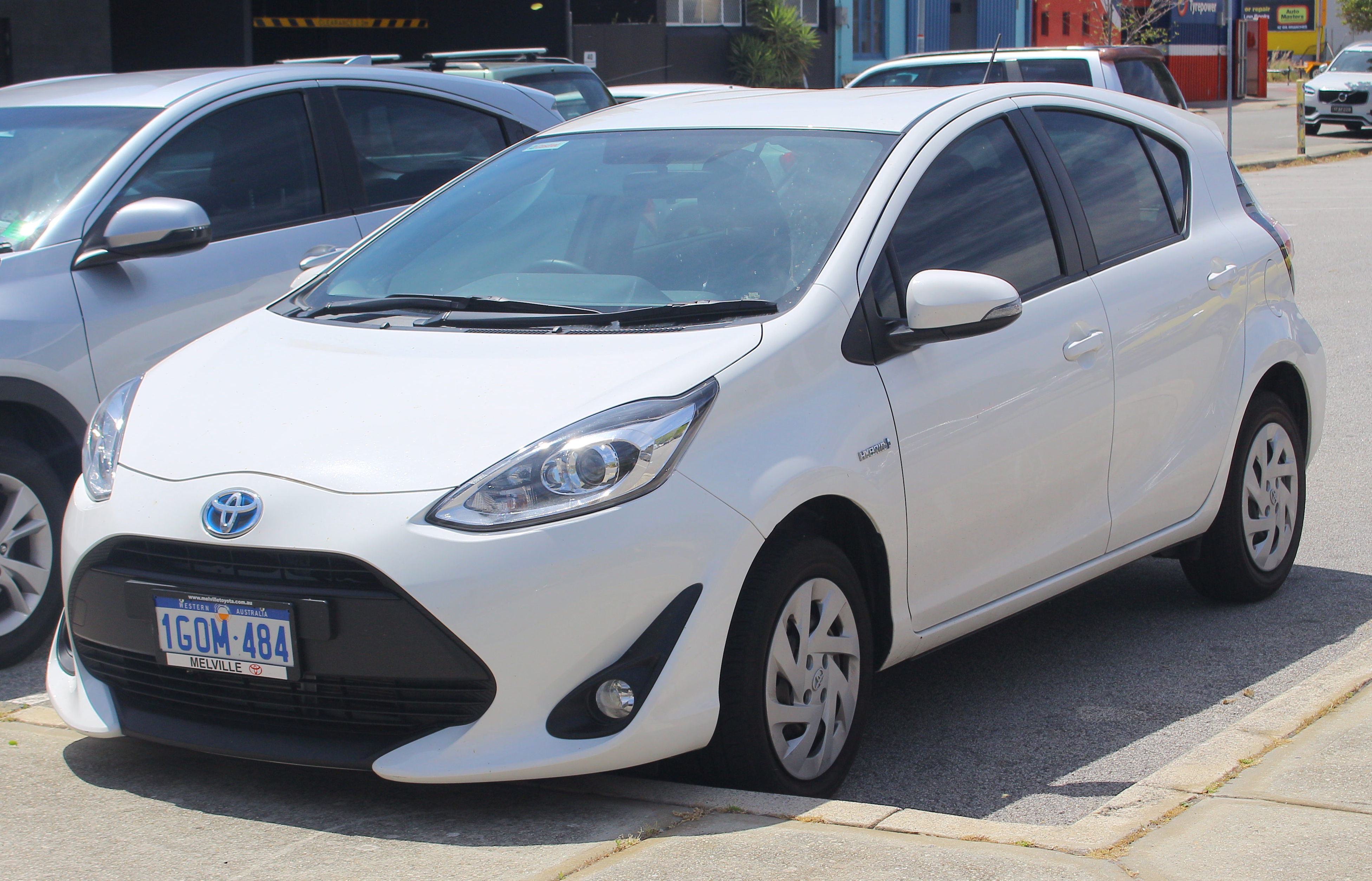 2018 Toyota Prius c (NHP10R) hatchback. Photographed in Fremantle, Western Australia, Australia.